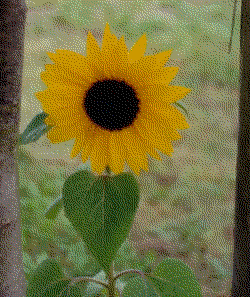 Picture of a sunflower in GIF format, saved with a 216-colour web-safe palette, employing dithering.